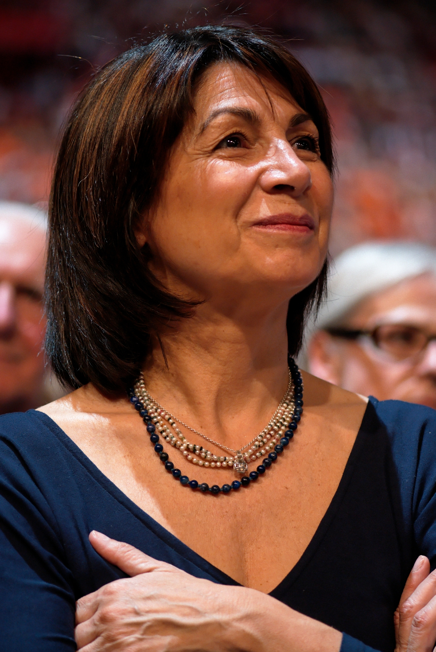 French conductor Claire Gibault at a rally for François Bayrou, centrist candidate in the 2007 French presidential election, held on Apr. 18, 2007 at Paris Bercy.